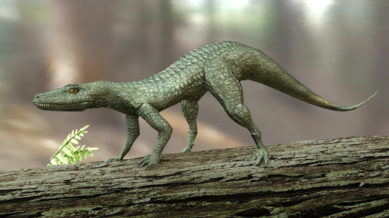 A crocodylomorph pauses for a moment on a log. The extinct reptile lived during the Late Triassic (Carnian) and has been found in strata from Arizona and New Mexico. They were not dinosaurs, but rather distant ancestors of modern reptile such as crocodiles. (Computer modeling and rendering by Aunt Spray)